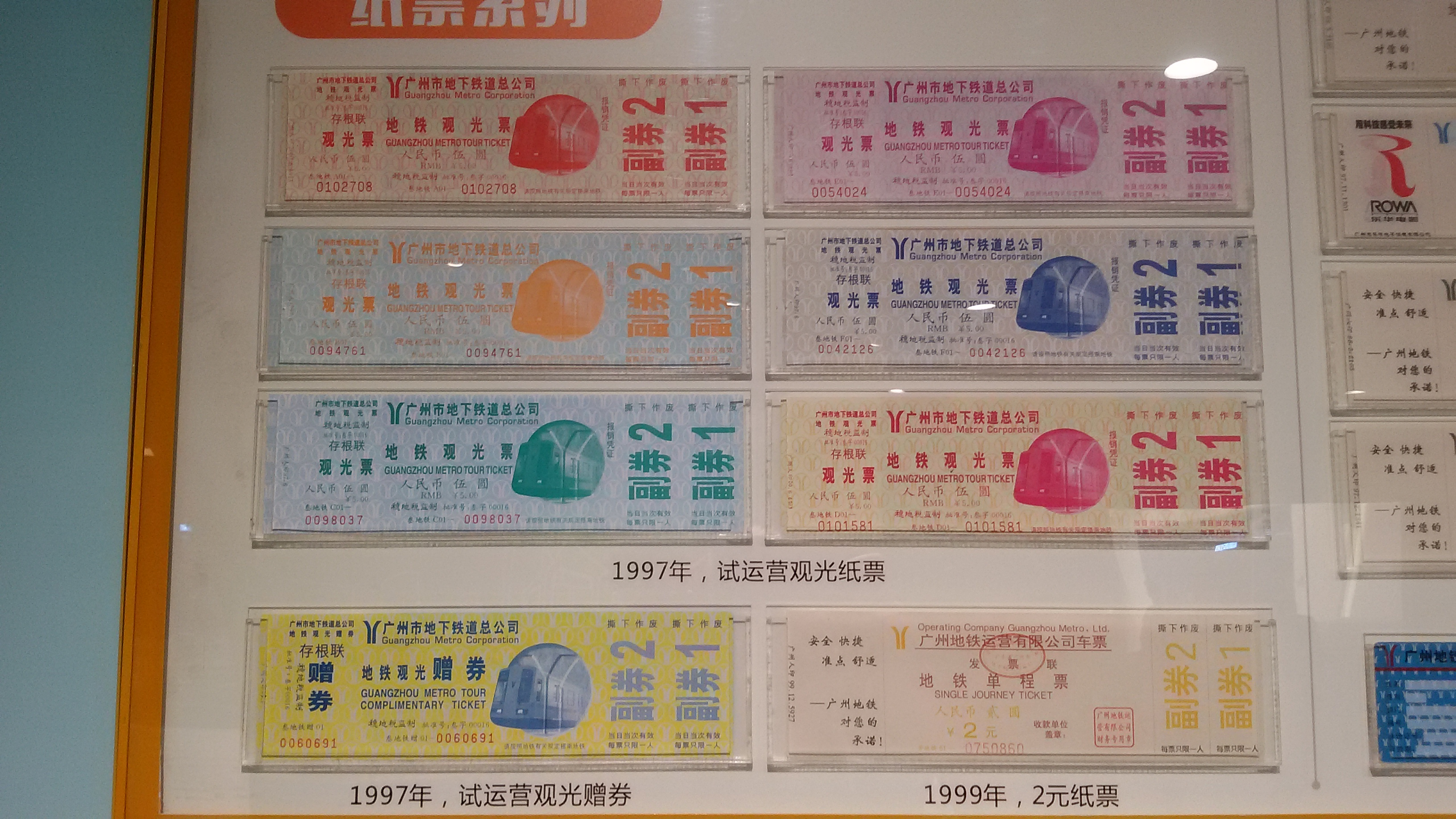 Former paper tickets for Guangzhou Metro since 1997~1999 粵語: 廣州地鐵喺1997～1999年間用過啲紙飛。